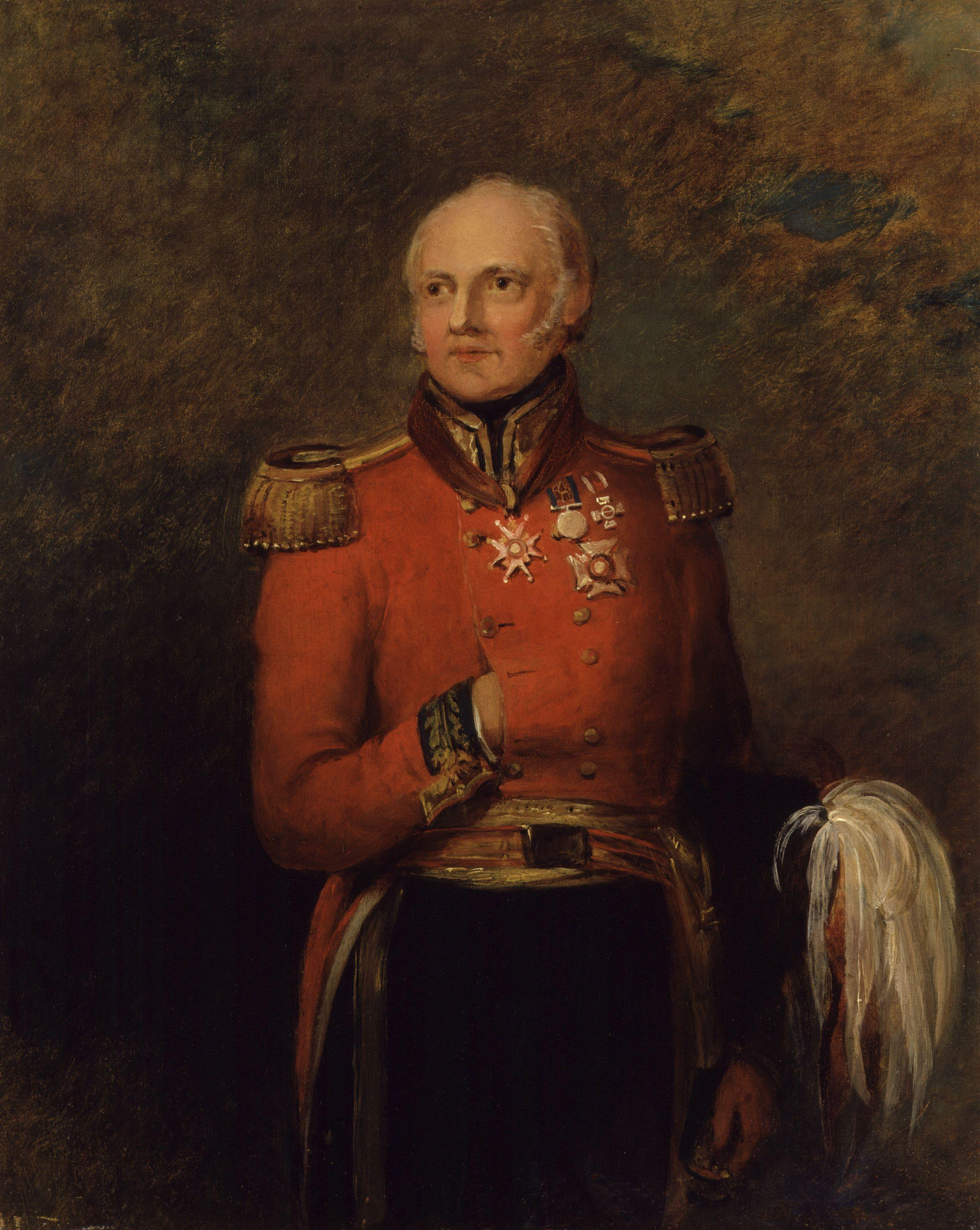 Sir George Scovell, by William Salter (died 1875). All images in this batch have been confirmed as author died before 1939 according to the official death date listed by the NPG.